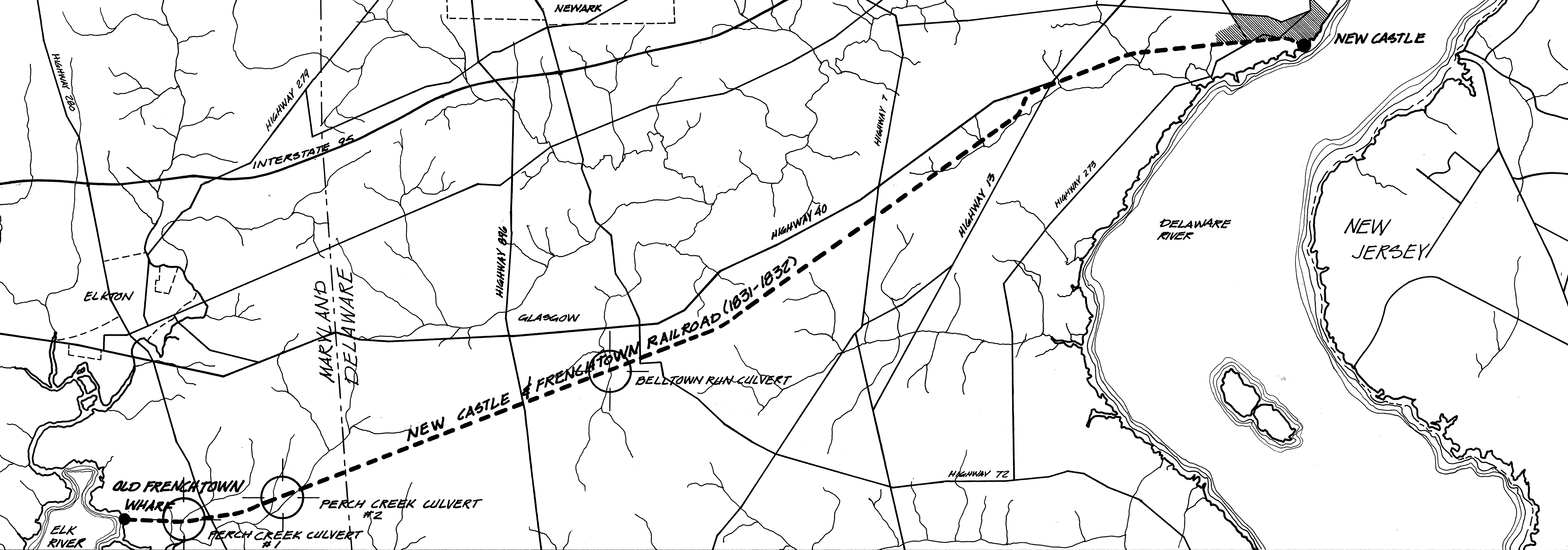 Map of New Castle and Frenchtown Railroad, built 1830-1832. The NC&F was acquired by the Philadelphia, Wilmington and Baltimore Railroad in 1839. Map cropped from larger engineering drawing sheet.